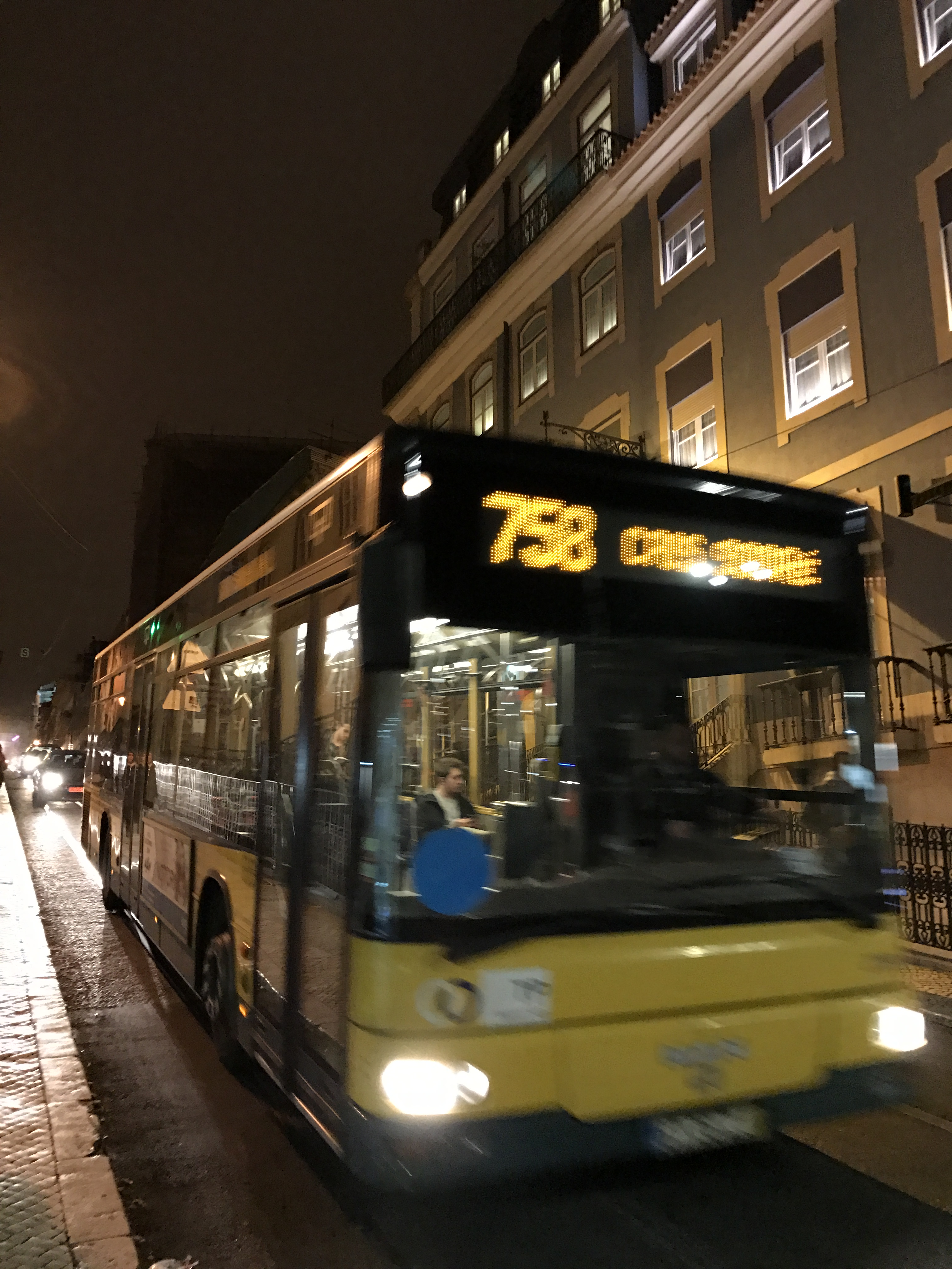 Pink Street, Lisboa